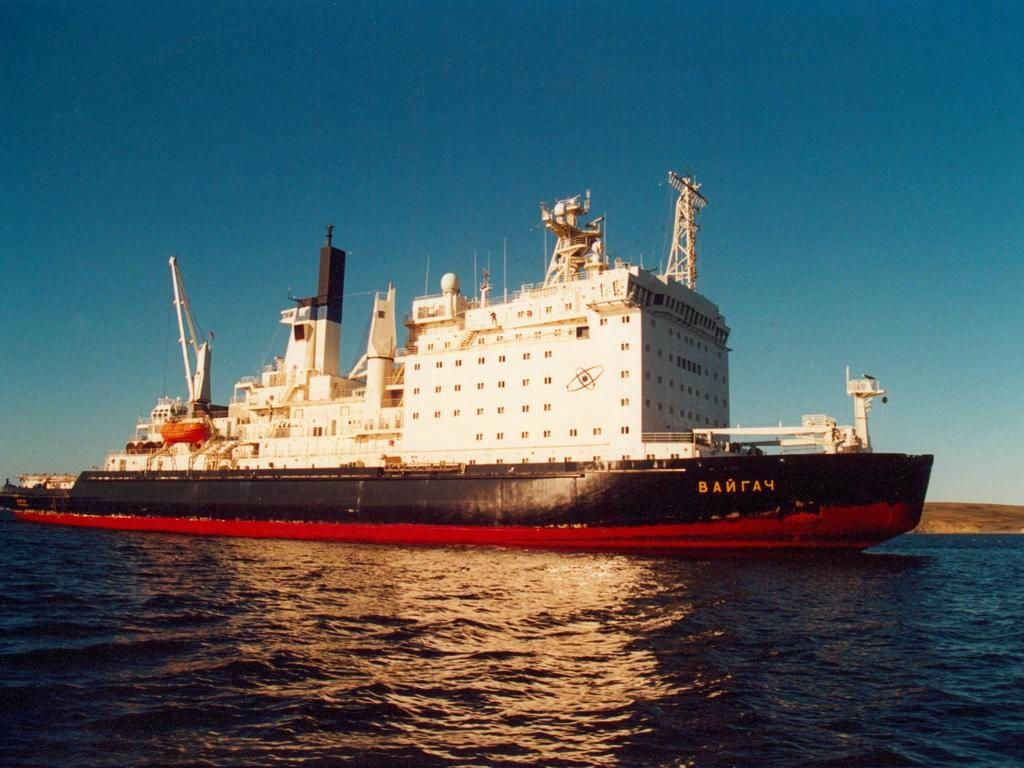 icebreaker Vaygach at anchor